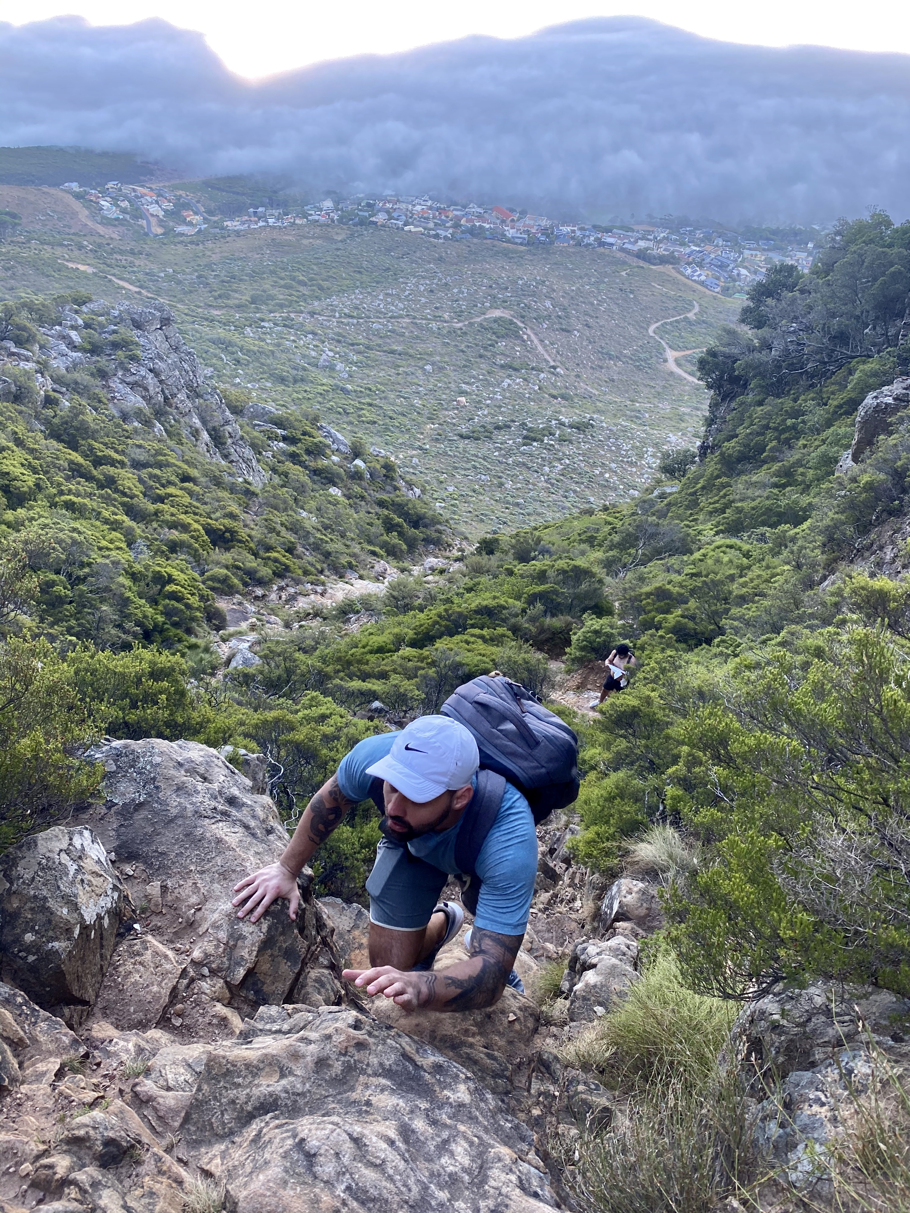 This is an image with the theme "Africa on the Move or Transport" from: South Africa